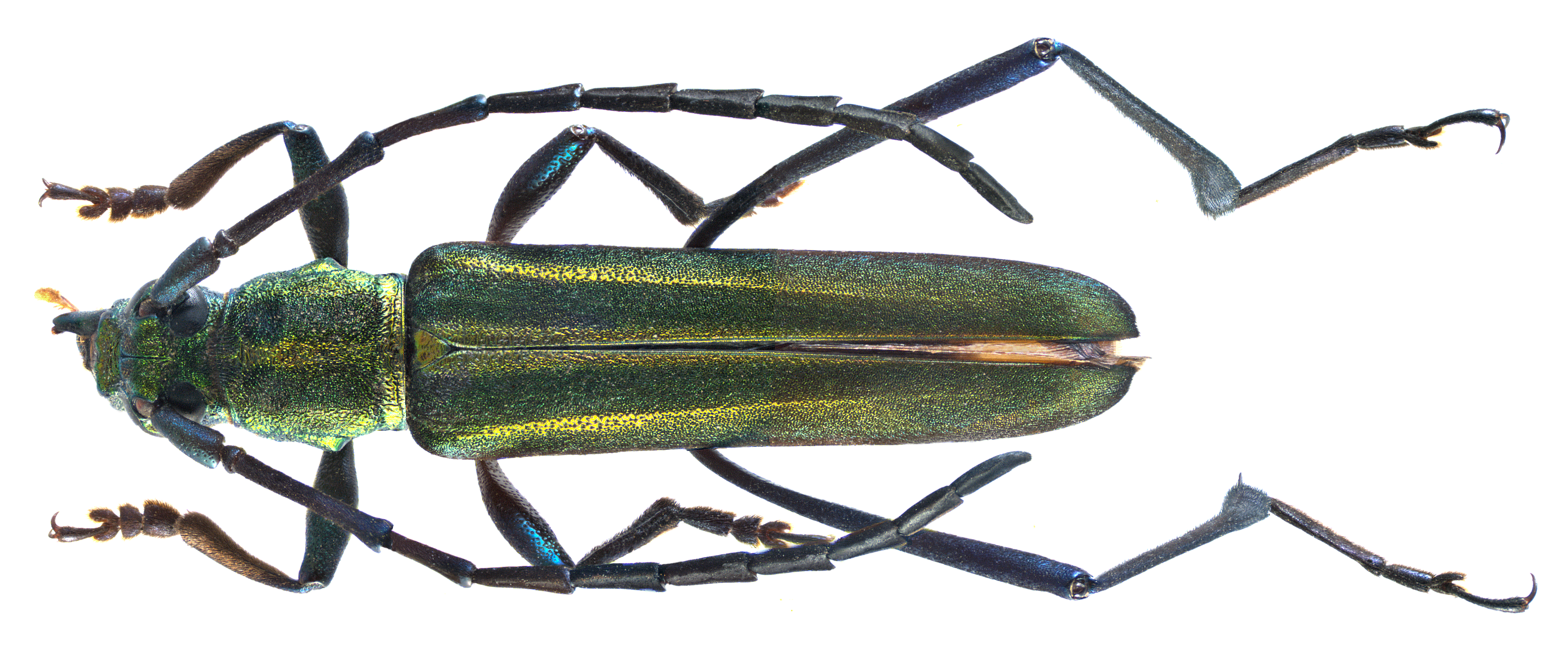 Family: Cerambycidae Size: 20,5 mm Location: Indonesia, Sumatra West, Guguk leg. Widagdo, III.1991 PARATYPE Photo: U.Schmidt, 2013